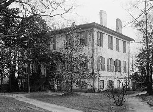 Camak House, 279 Meigs Street, Athens (Clarke County, Georgia) cropped